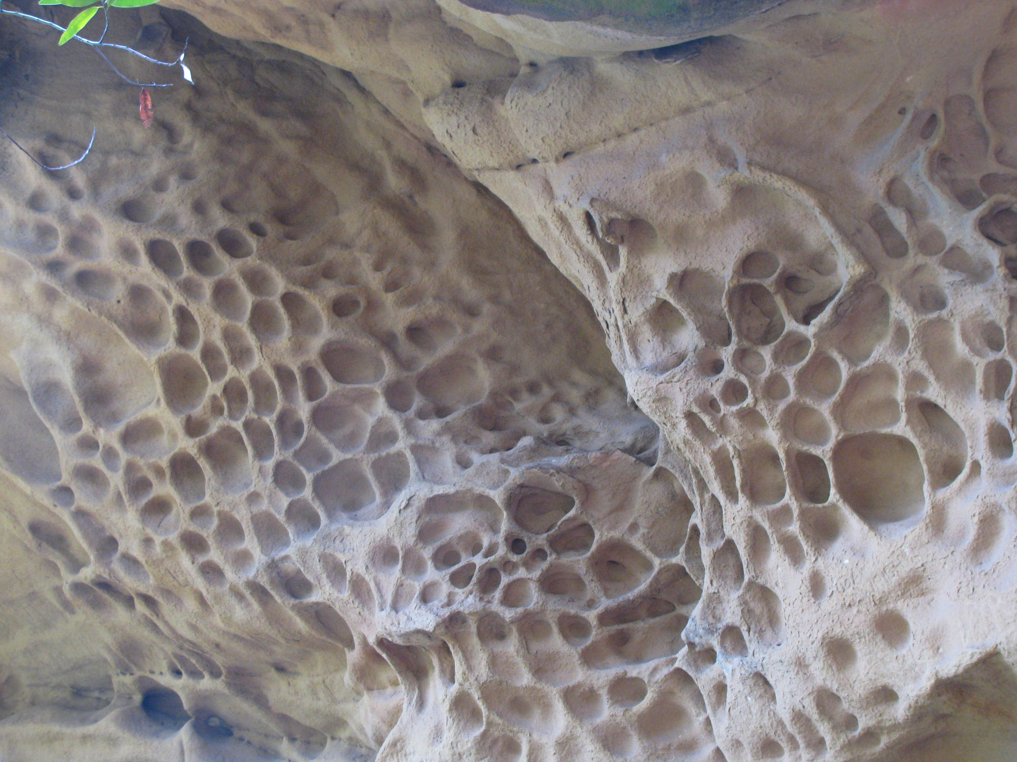 Honeycomb weathering in the Coldwater Sandstone near Painted Cave State Park, Santa Barbara, CA. Photo by self. GFDL/equiv.